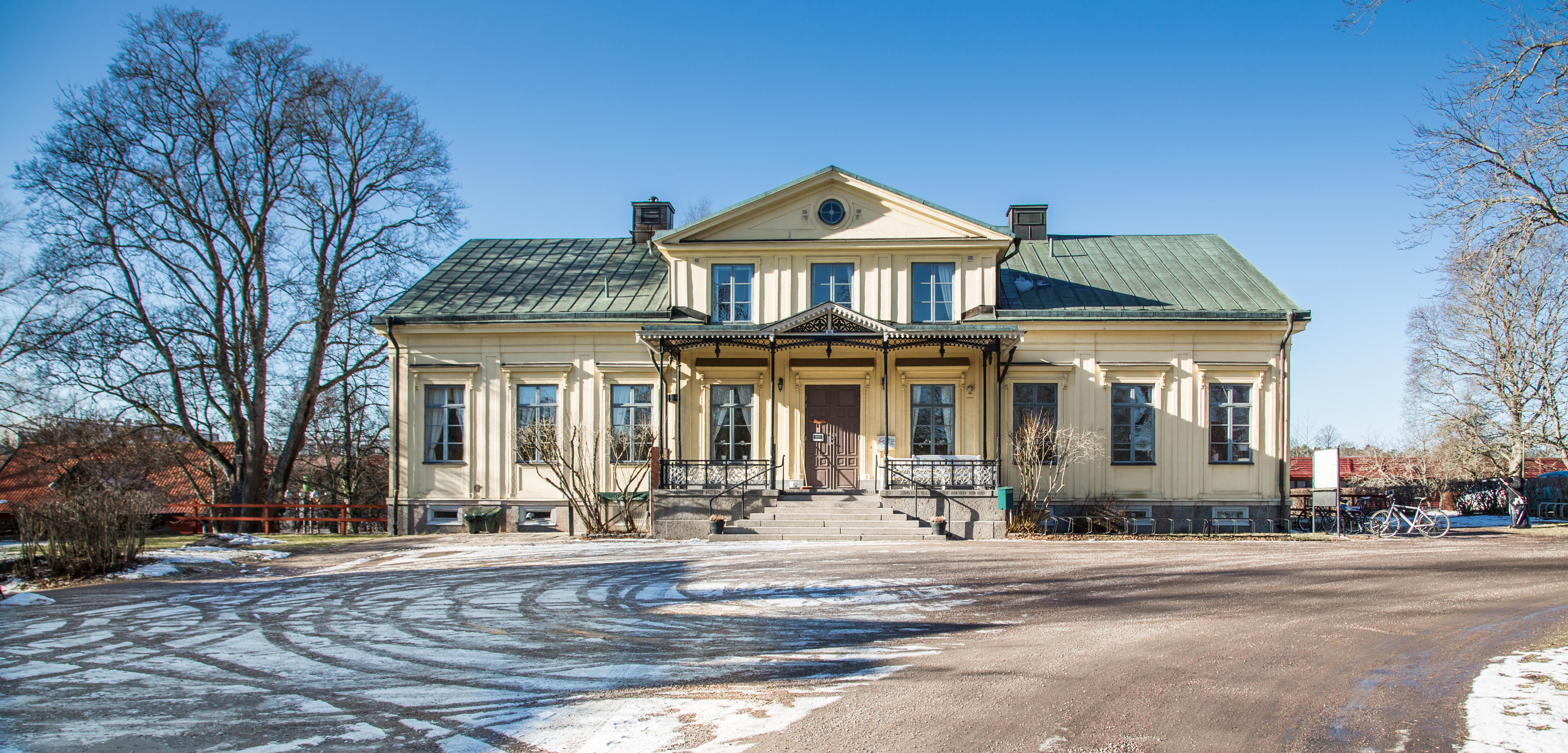 Valla estate, main building, Linköping, Sweden